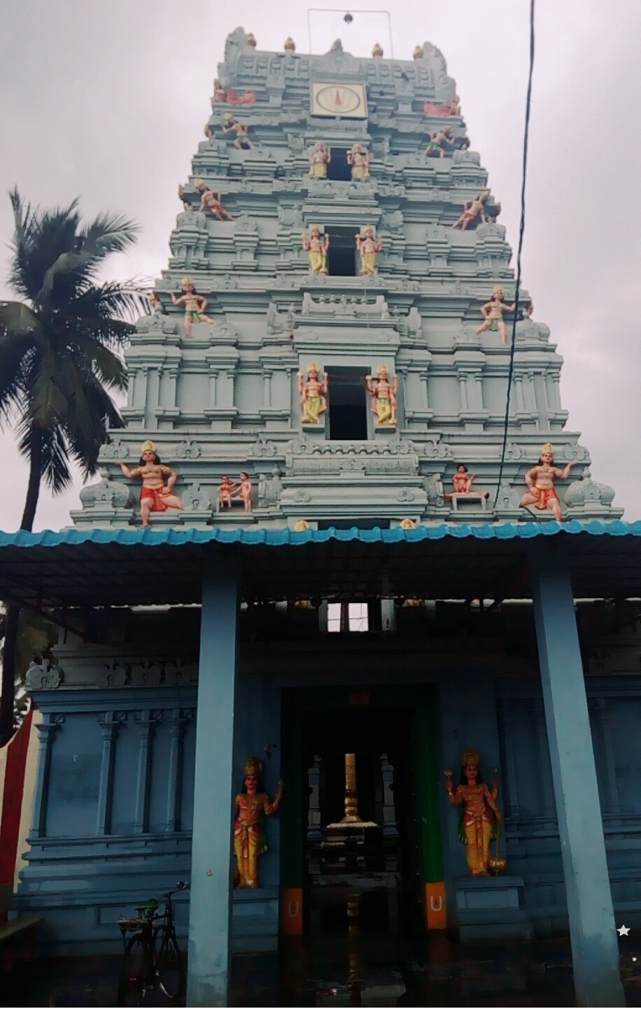 Front view of Andhra Vishnu Temple at Srikakulam ,Krishna District,Andhra Pradesh